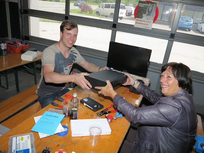 Repair Café in Westendorf in Tirol